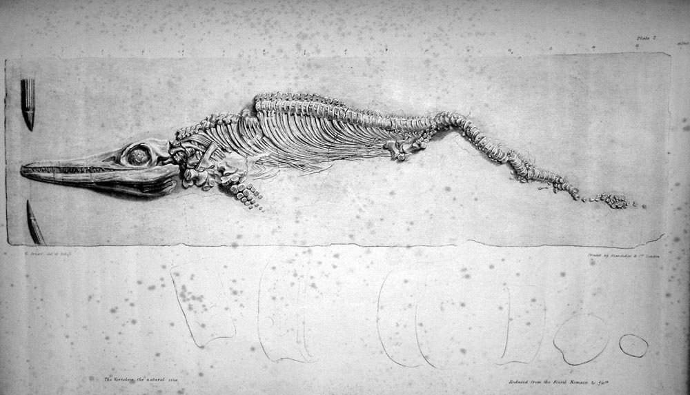 Temnodontosaurus platyodon, Plate 2 Sea Dragons Hawkins